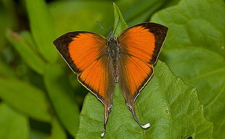 by Dhaval Momaya. Shot in Jairampur, Arunachal Pradesh during August 2006.